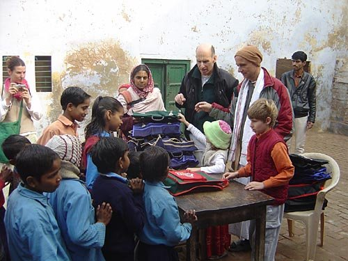 Kurt Mausert in Vrindavana with Rupa who manages his charity.